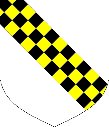 Coat of arms of the noble family of Freckleben at Schloss Schneitlingen, Magdeburg